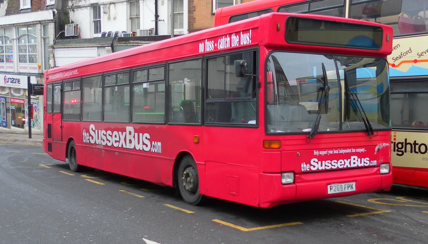 The Sussex Bus Dennis Dart SLF